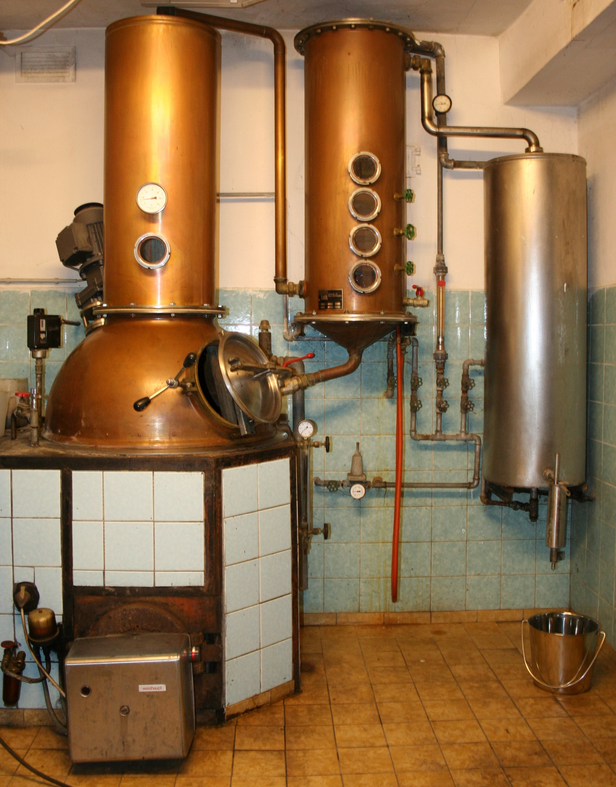 schnapps-destillery, bavaria